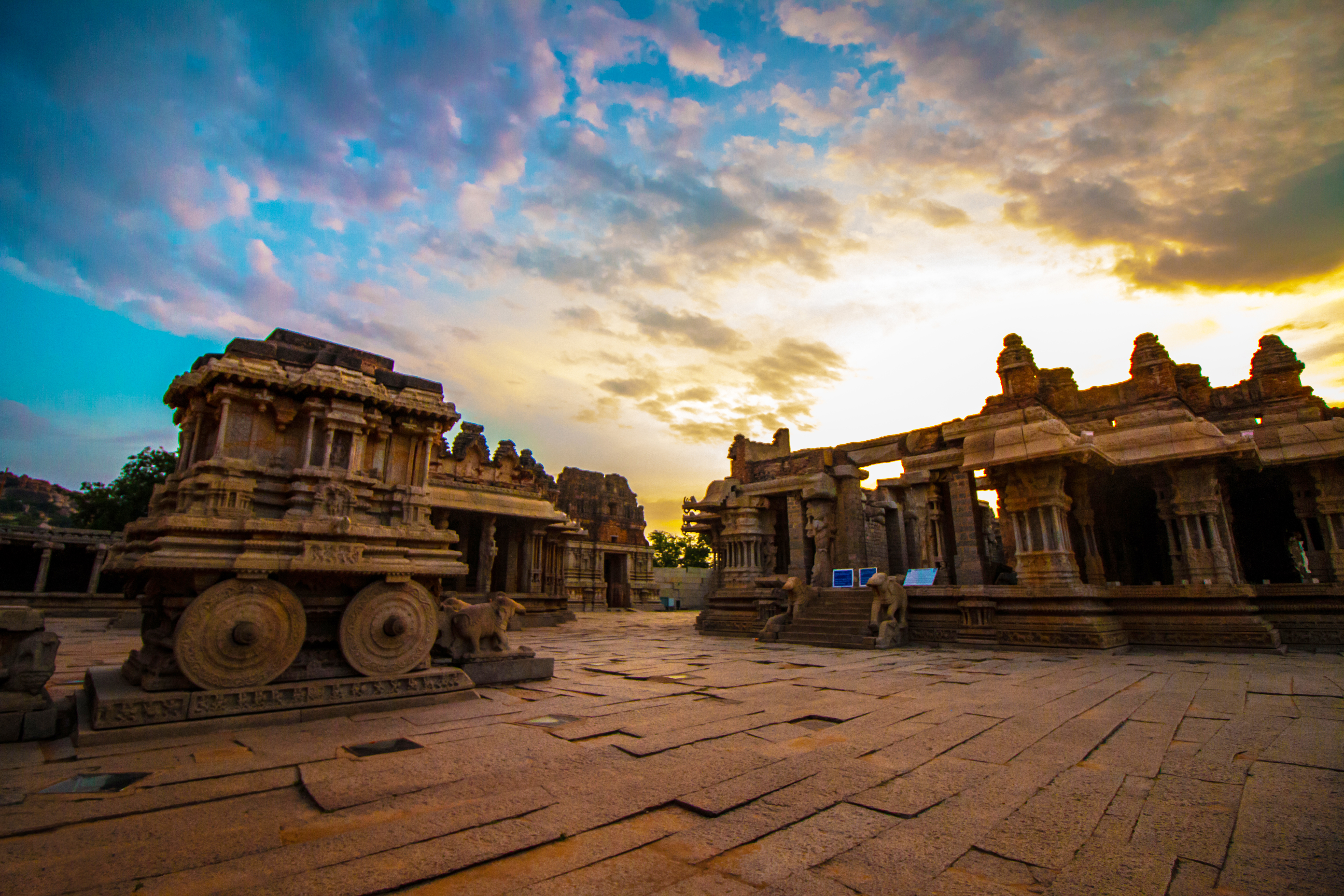 The stone chariot at Vittala temple